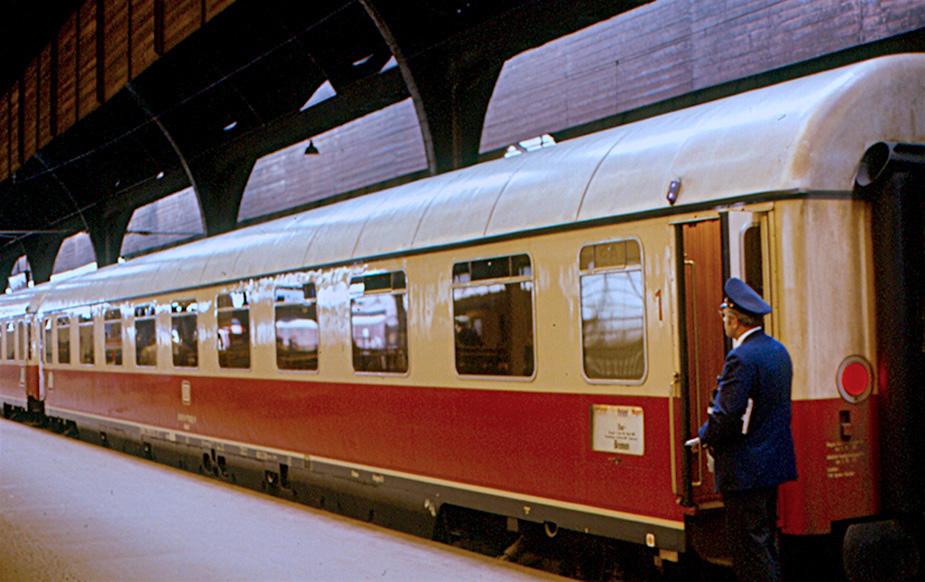 My second TEE journey and the last train of this trip was on Roland, from Zürich to Frankfurt. This was my car. It originated in Chur as part of a normal SBB train, and was coupled to the TEE at Basel. TEE Roland traveled from Milan to Bremen.